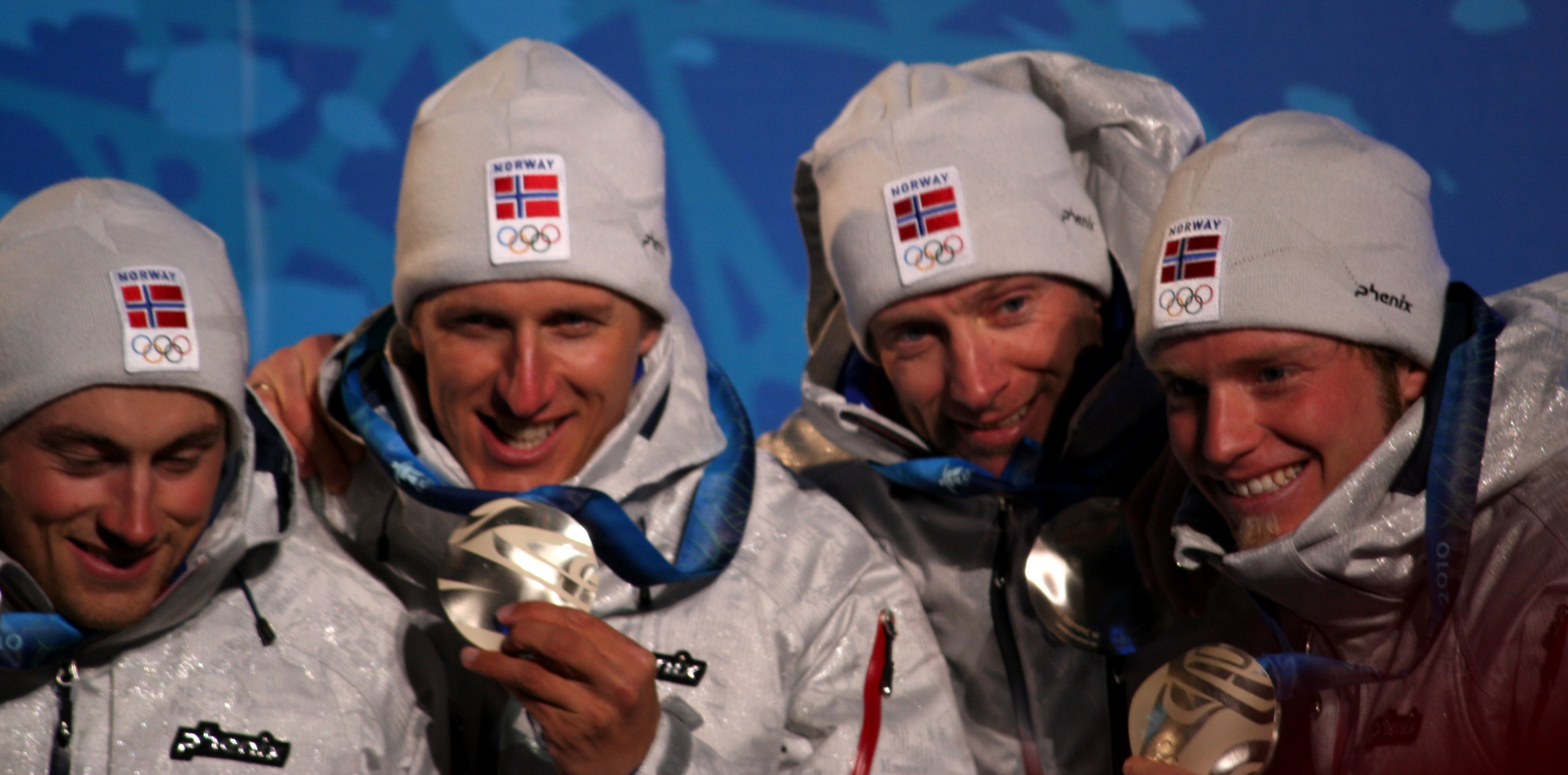 The mens 4 x 10km cross country skiing relay team displaying their silver medals at the 2010 Winter Olympics.